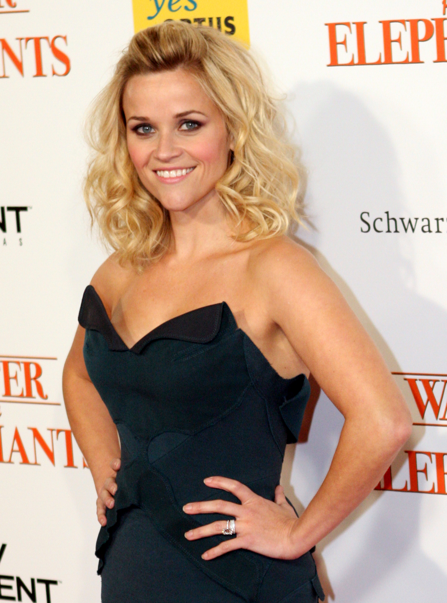 Reese Witherspoon at the Water for Elephants Premiere 2011.